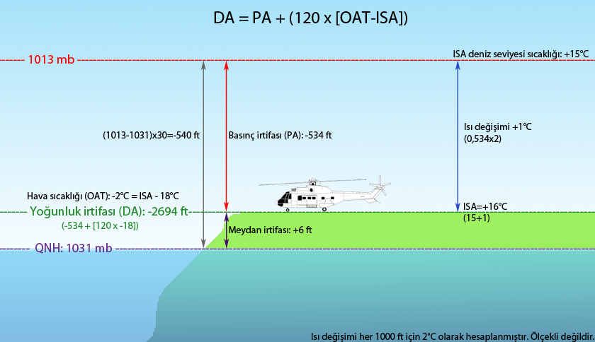 Density altitude second example